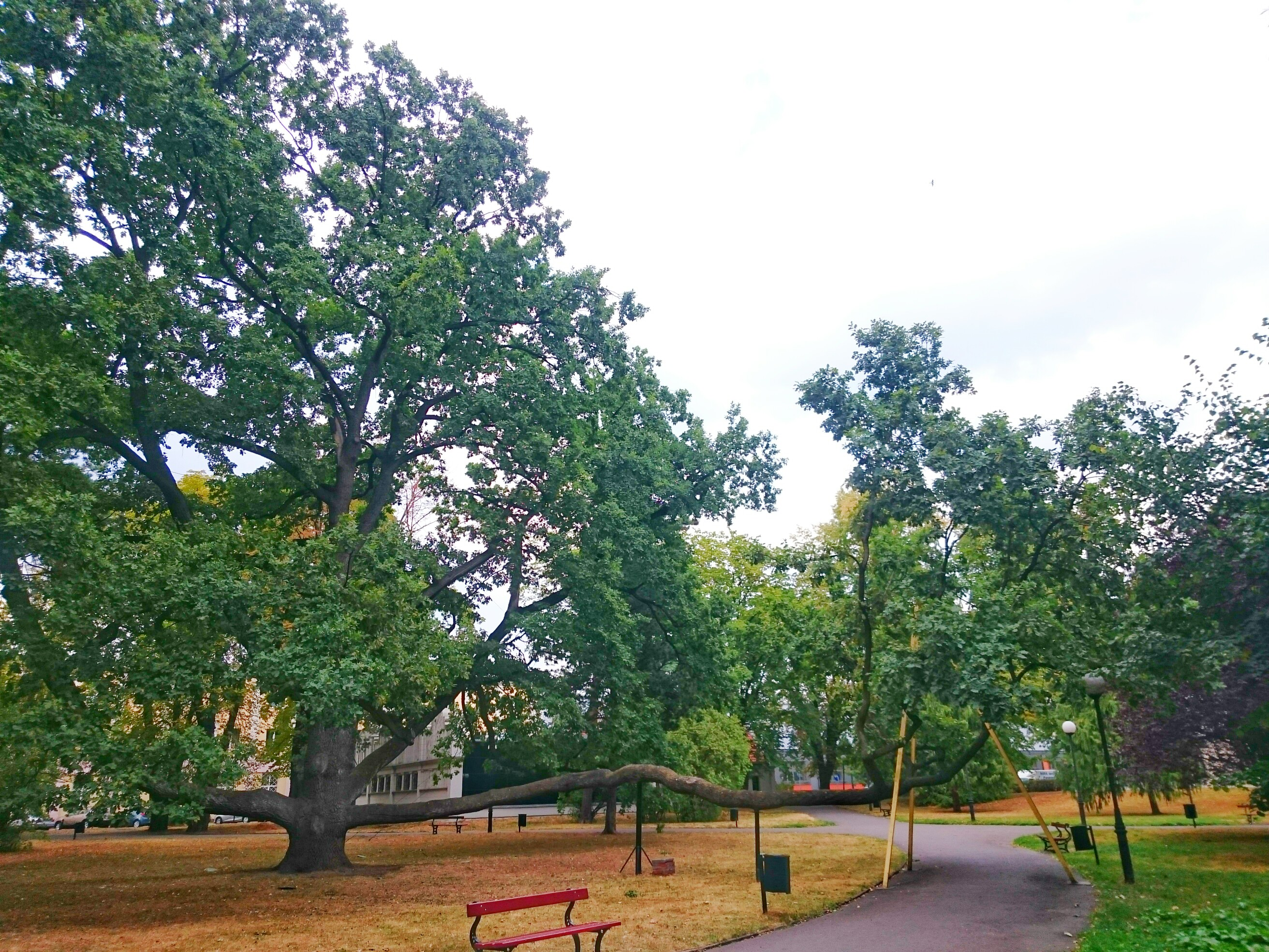 Pedunculate Oak 'Fabrykant', the longest branch is visible.